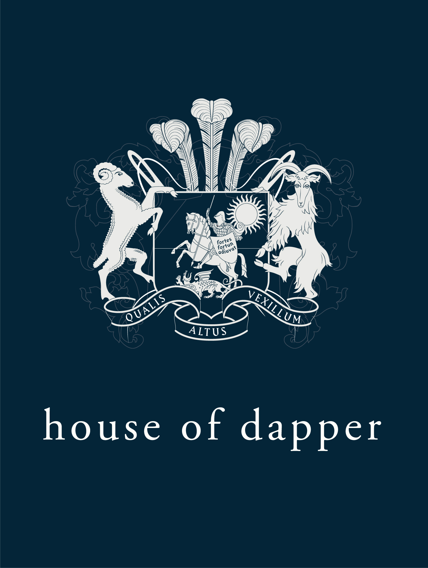 Coat of Arms of House of Dapper tailors in The Netherlands